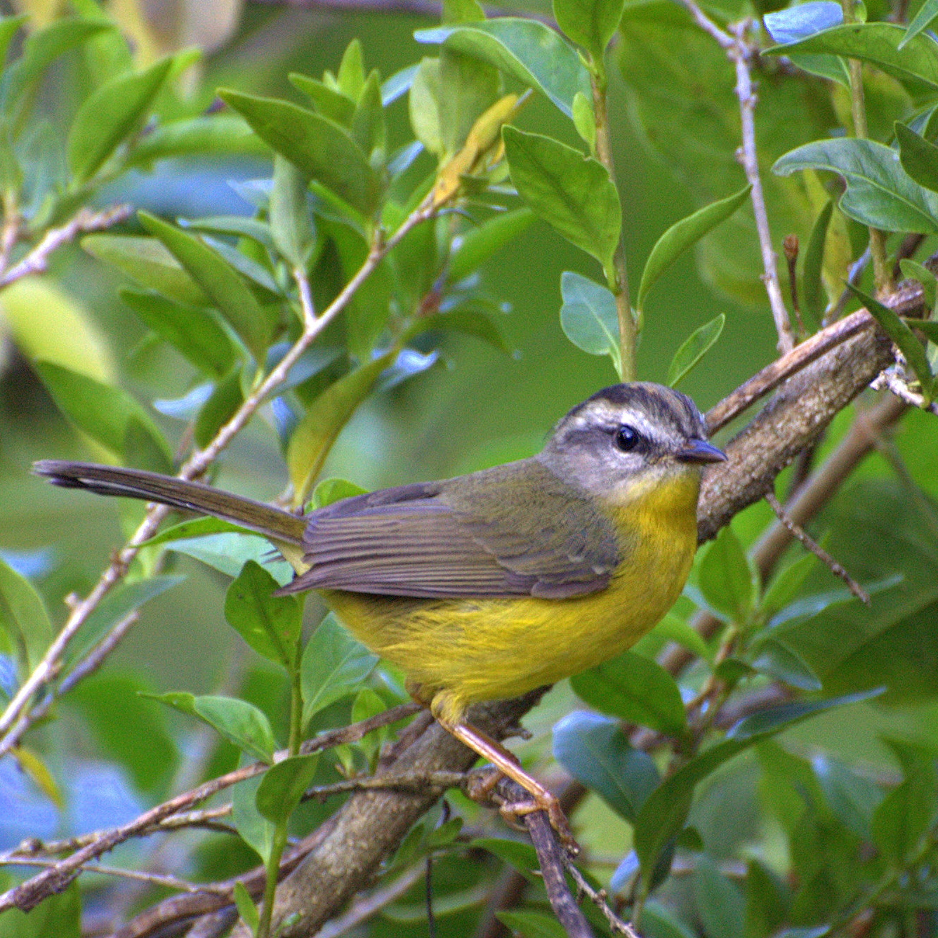 A Golden-crowned Warbler Basileuterus culicivorus, Horto Florestal de São Paulo